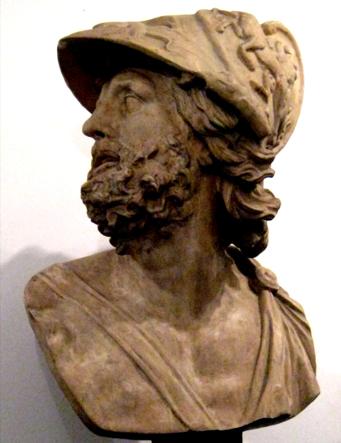 Cast of Menelaus head.